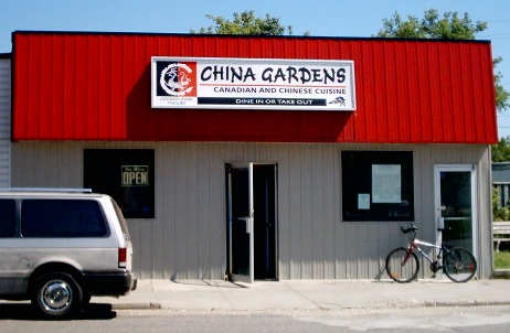 A Chinese-Canadian Restaurant in Nipigon, Ontario